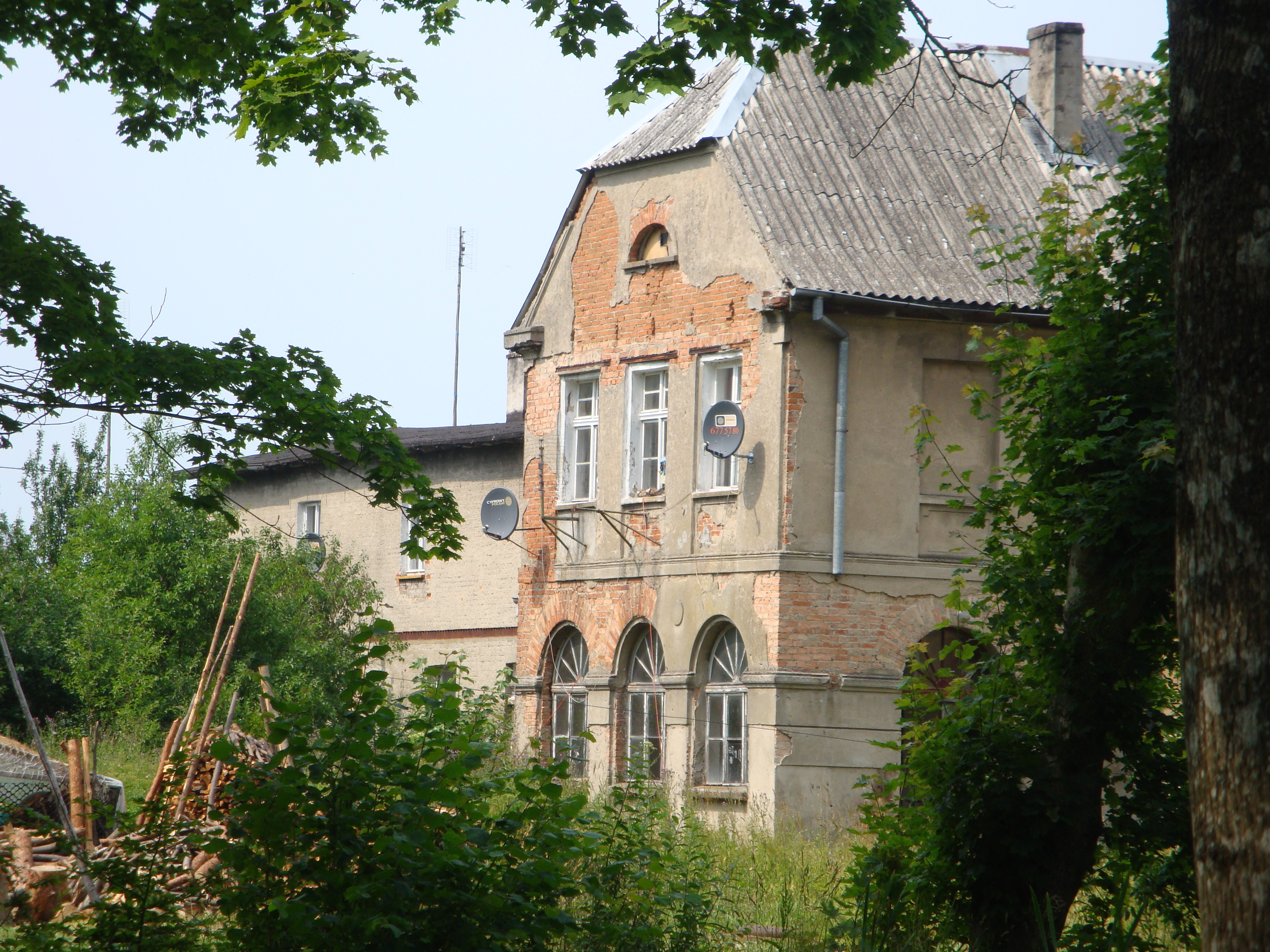 Biebrowo-village in Gmina Choczewo, Poland